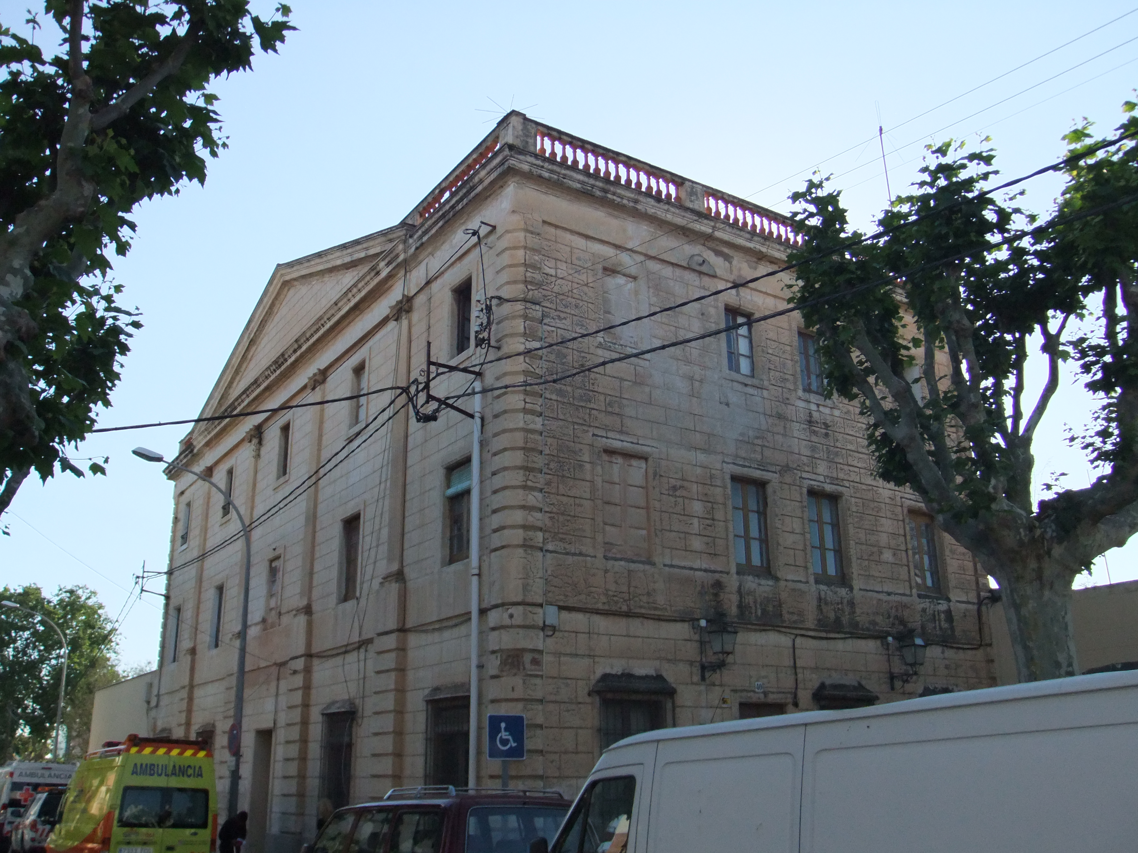 Nautical School of Vilassar de Mar in St. Eulàlia street.